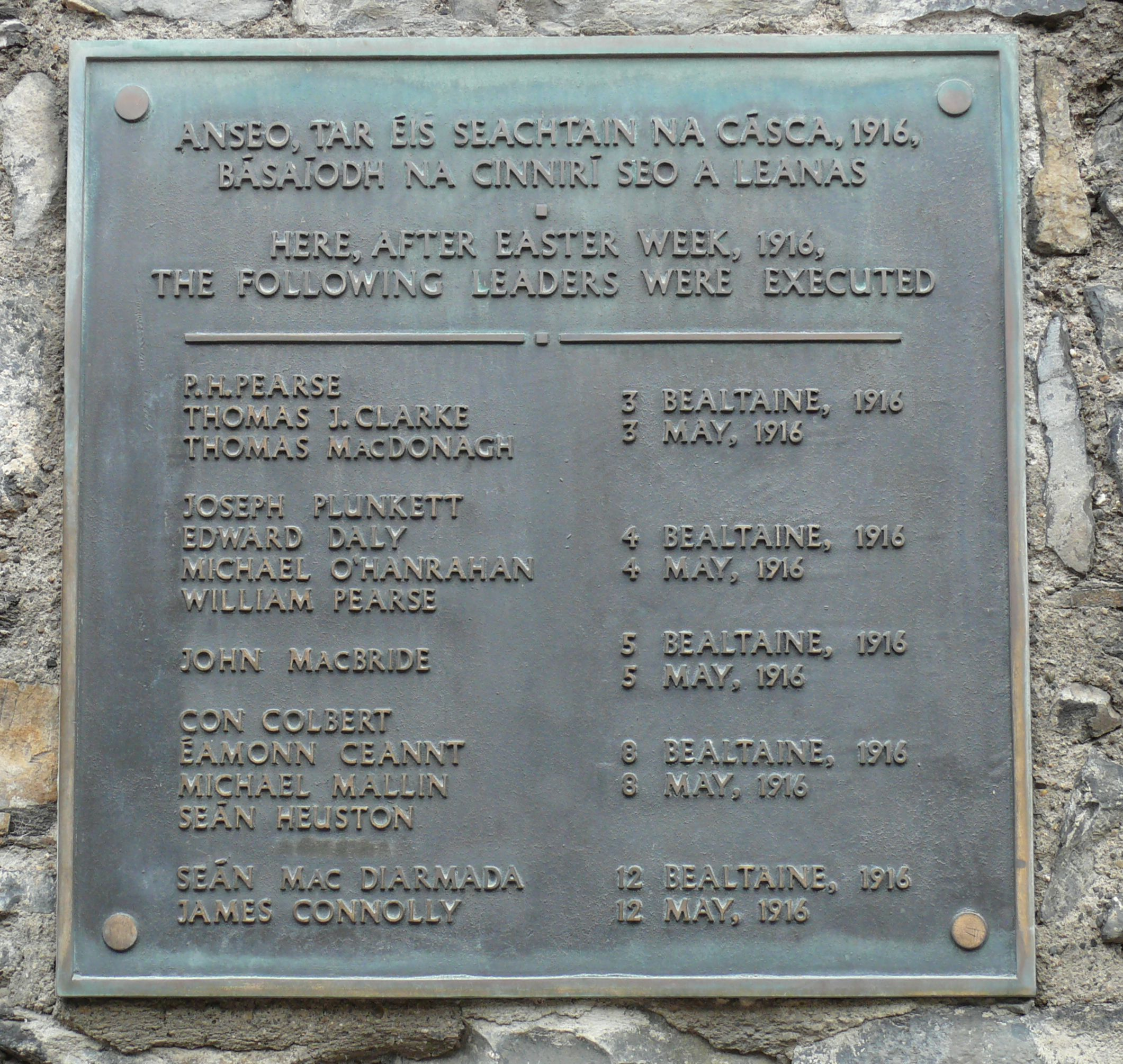 Memorial plaque in Kilmainham Gaol, Dublin, Ireland